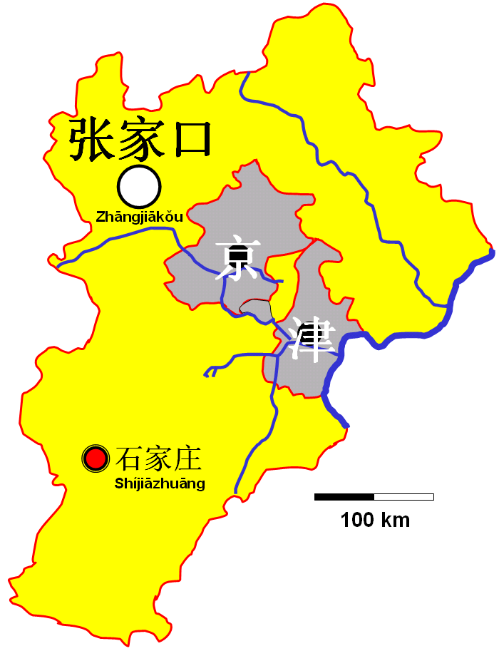 Description: position of the Chinese cities of Shijiazhuang and Zhangjiakou in the Chinese province of Hebei Source: own work Date: December 2005 Author: --Immanuel Giel 14:16, 13 December 2005 (UTC) Other versions: none